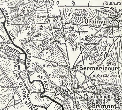 Map of Loivre and Bermericourt, Aisne, 1917